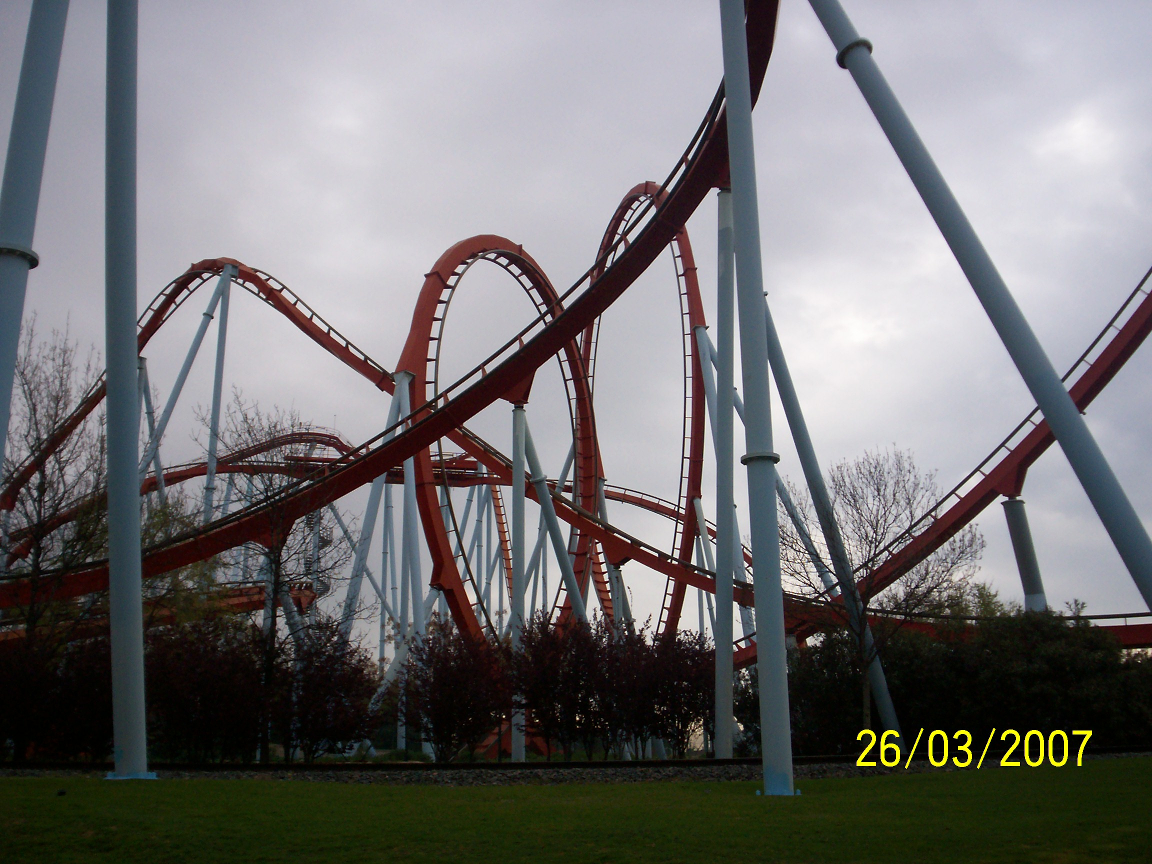 Dragon Khan near view.